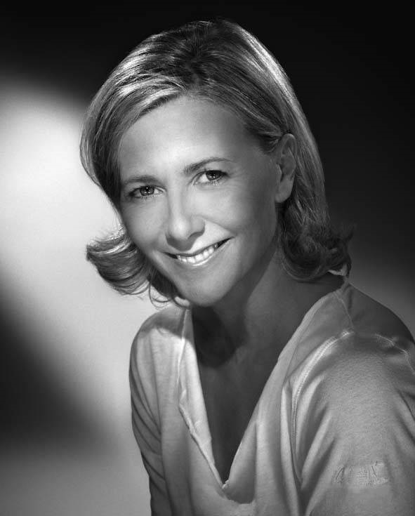 Claire Chazal photographed by Studio Harcourt Paris